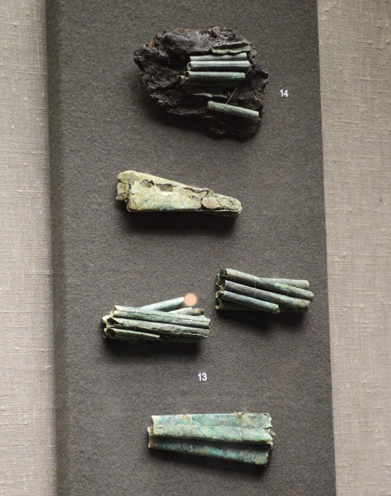 Forest zone of european part of Russia. Berezovy Rog burial ground, second half of 2 mill. BC. Perforated beads, bronze, Ryazan region.